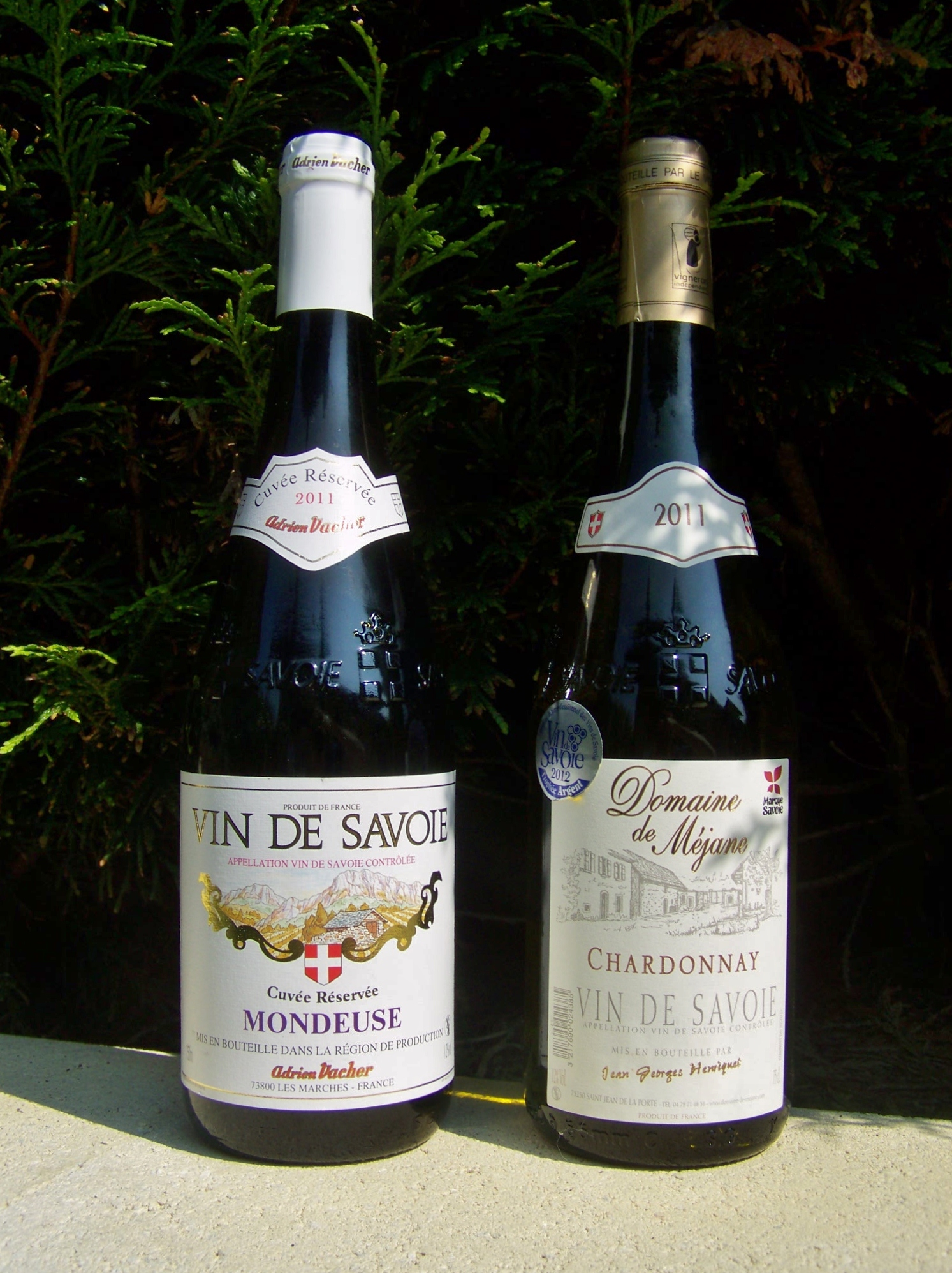 Wine bottle Vin de Savoie of Mondeuse (red wine) and Chardonnay (white wine) varietals, produced in Les Marches and Saint-Jean-de-la-Porte in Savoie, France.